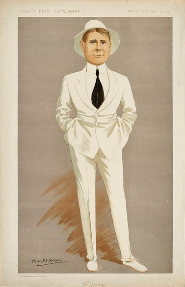 Caricature of English actor Robert Loraine. Caption read "The Flying Stage".